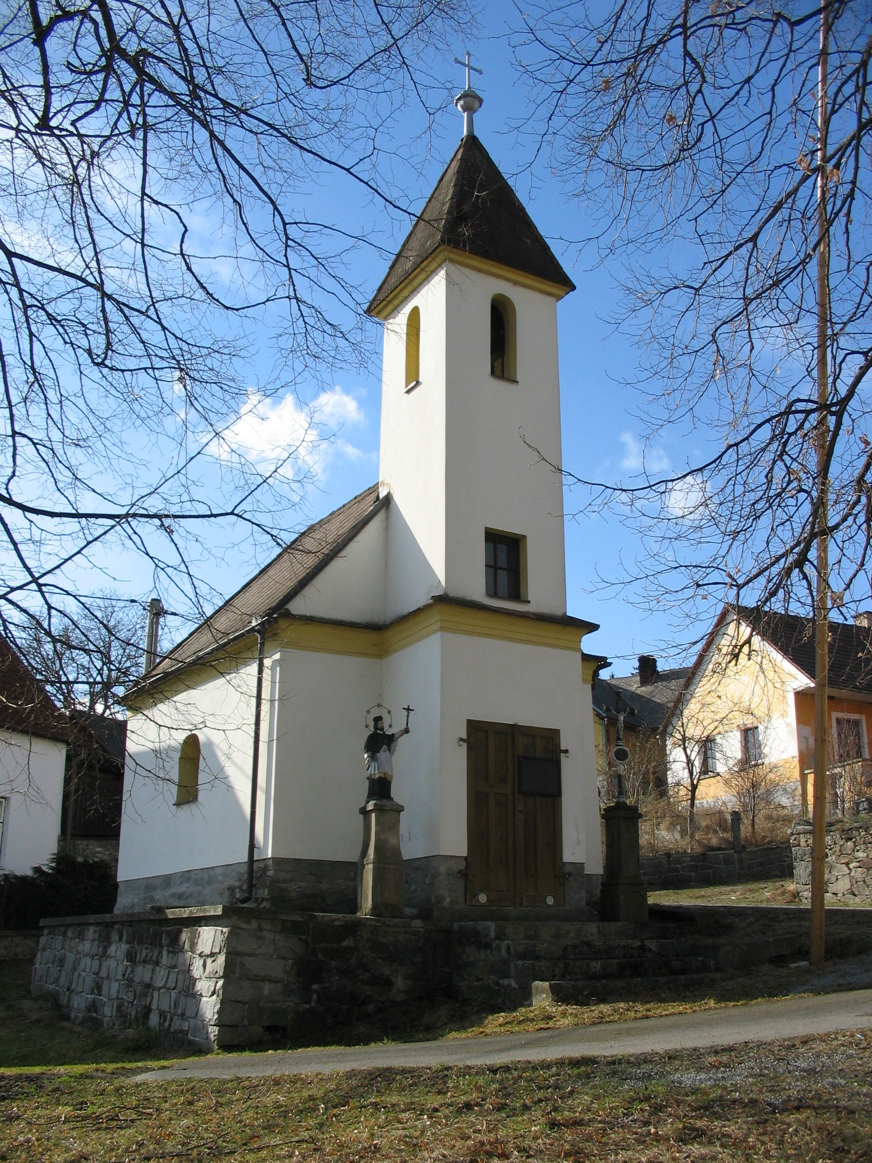 Chapel in Hoslovice, Strakonice District, Czech Republic